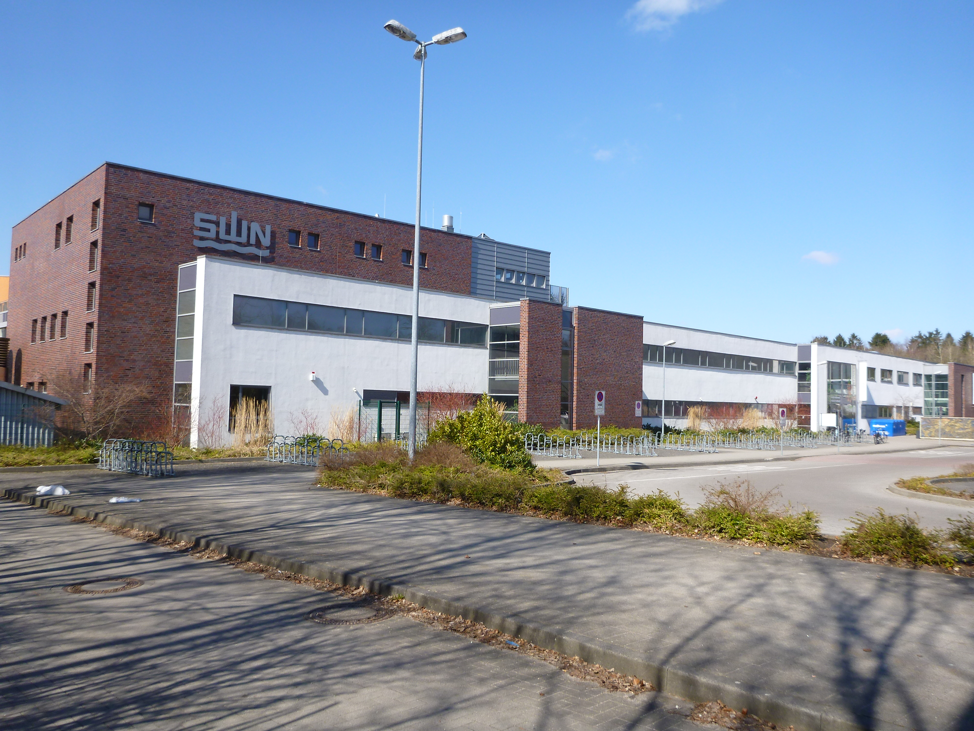 Indoor and outdoor swimming pool "Bad am Stadtwald", main view operated by Stadtwerke Neumünster (SWN)